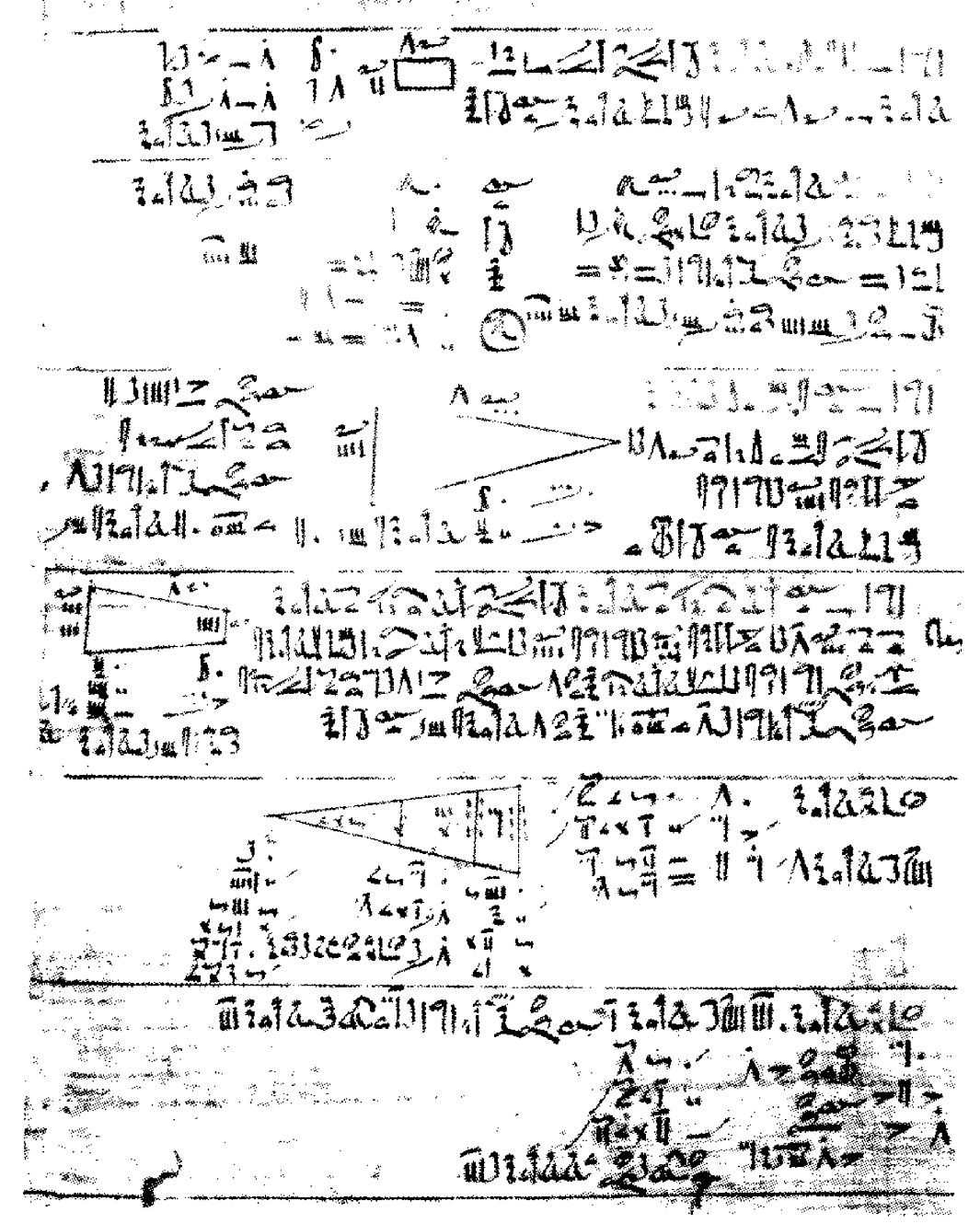 Egyptian A'h-mosè or Rhind Papyrus